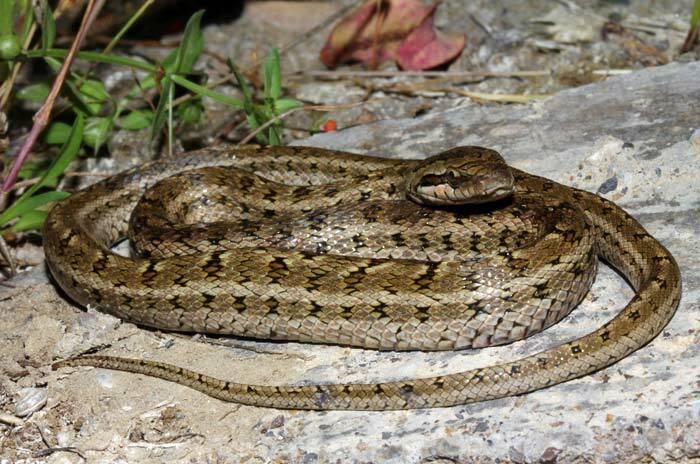 Elaphe dione